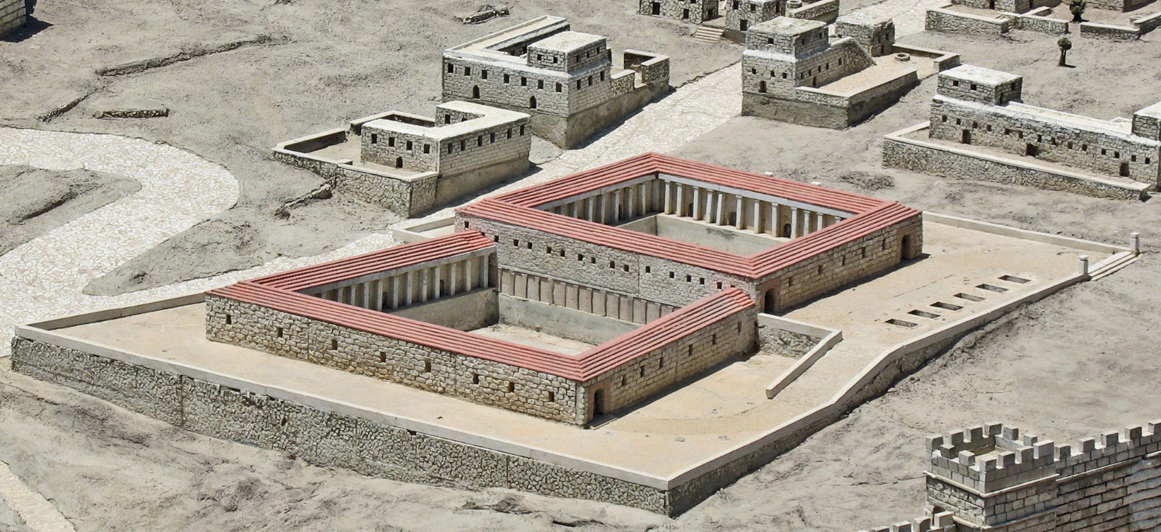 Pool of Bethesda - model in the Israel Museum